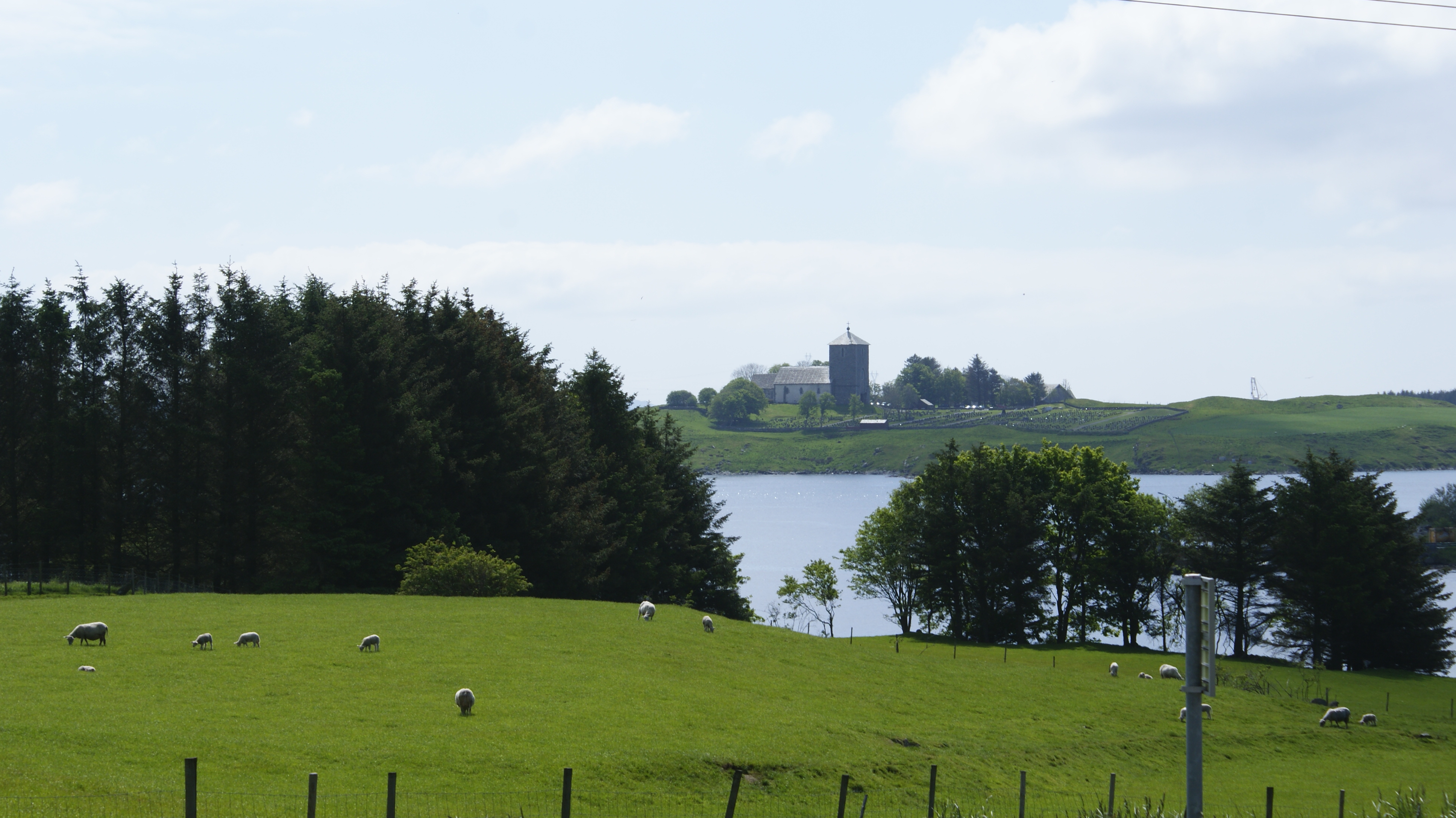 Karmøy, Haugalandet, Rogaland, Norway. St. Olav church.